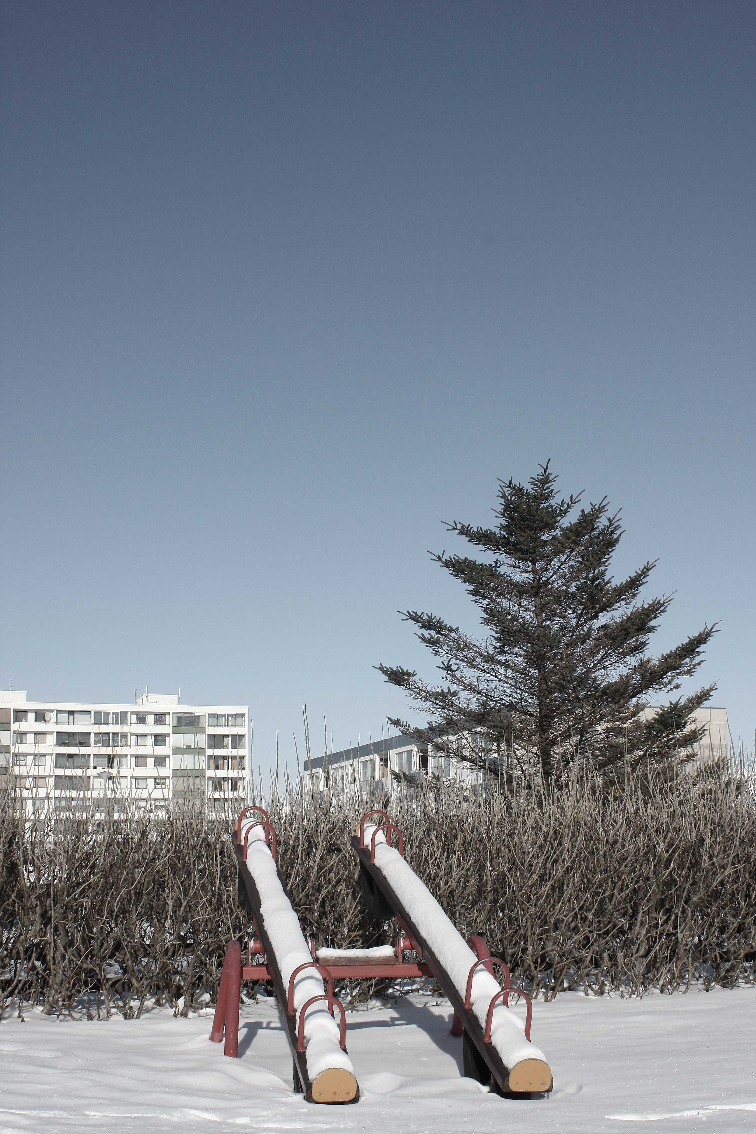 playground for millionaires